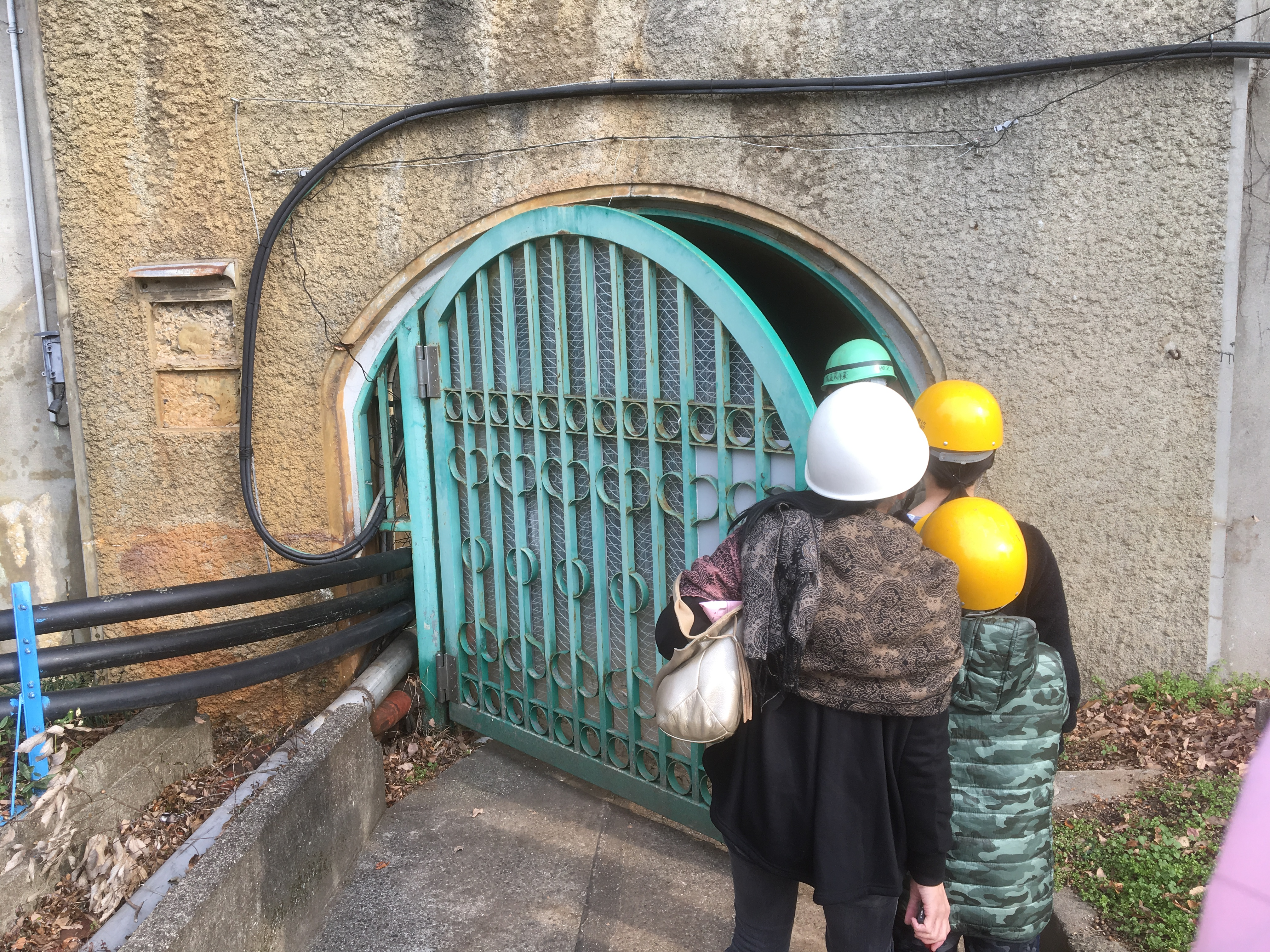 yanahara-mine (FeS) Gate 12-2016 Okayama-pref JAPAN